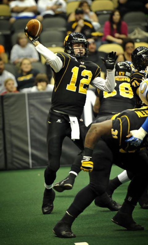 Steven Sheffield back to pass during a Arena Football Game